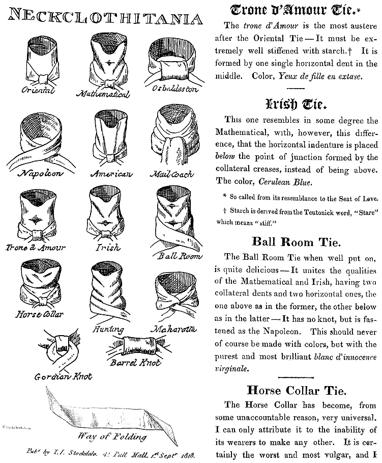 An image showing some cravat-tying illustrations (engraved by George Cruikshank), and also partial descriptive text, taken from "Neckclothitania or Tietania, being an essay on Starchers, by One of the Cloth" (published by J.J. Stockdale, Sept. 1st. 1818). This contains factual information, but is also a caricature of dandies who allegedly devoted exaggerated importance and great effort to the arrangement of their neckcloths. It contains some over-the-top facetious touches -- such as "Yeux de fille en extase" as the name of a color(!). For more of the text of Neckclothitania, see Anne Woodley's site